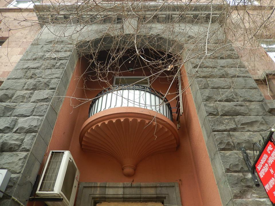 Balcony on Tumanyan street